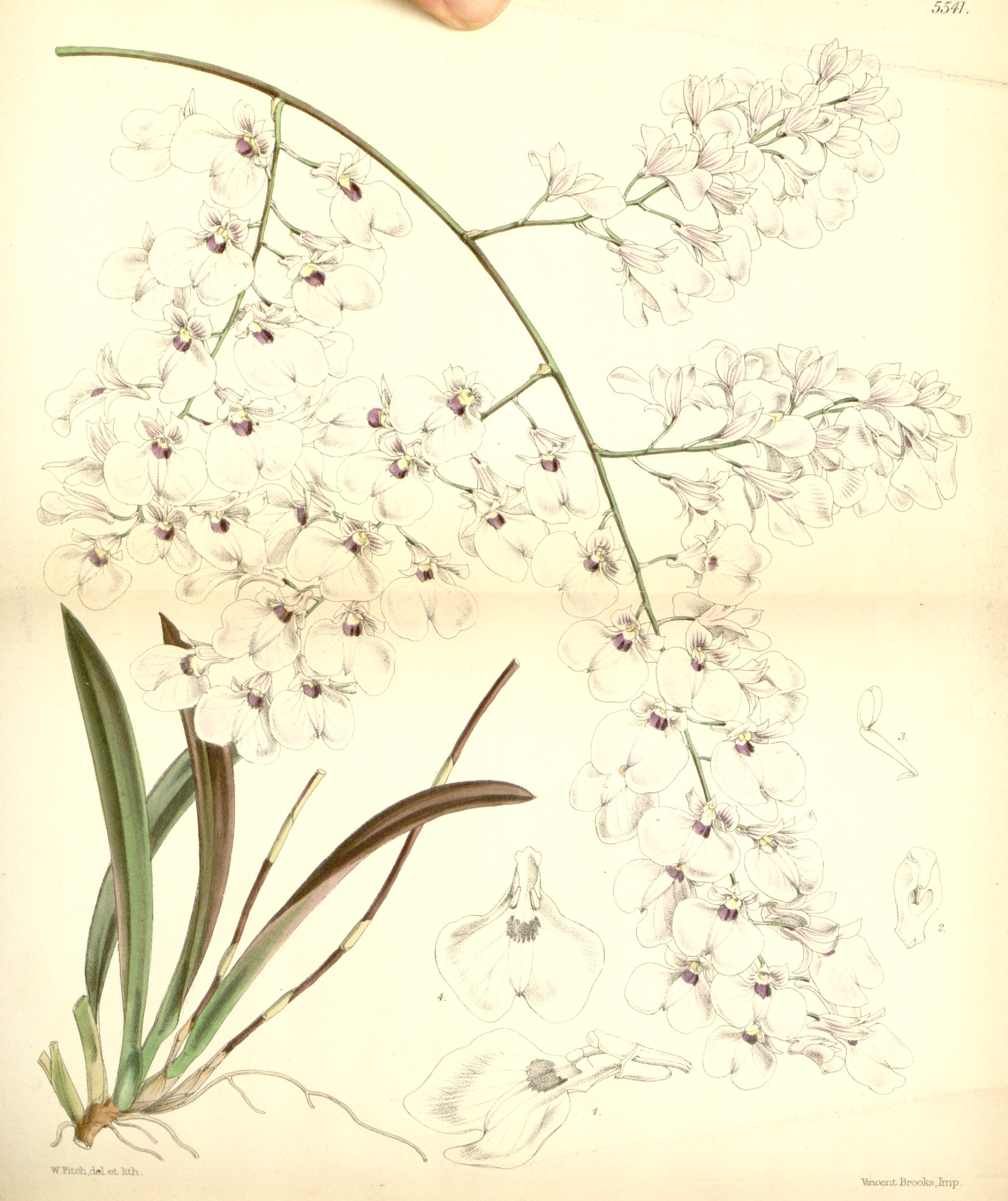 Illustration of Ionopsis utricularioides